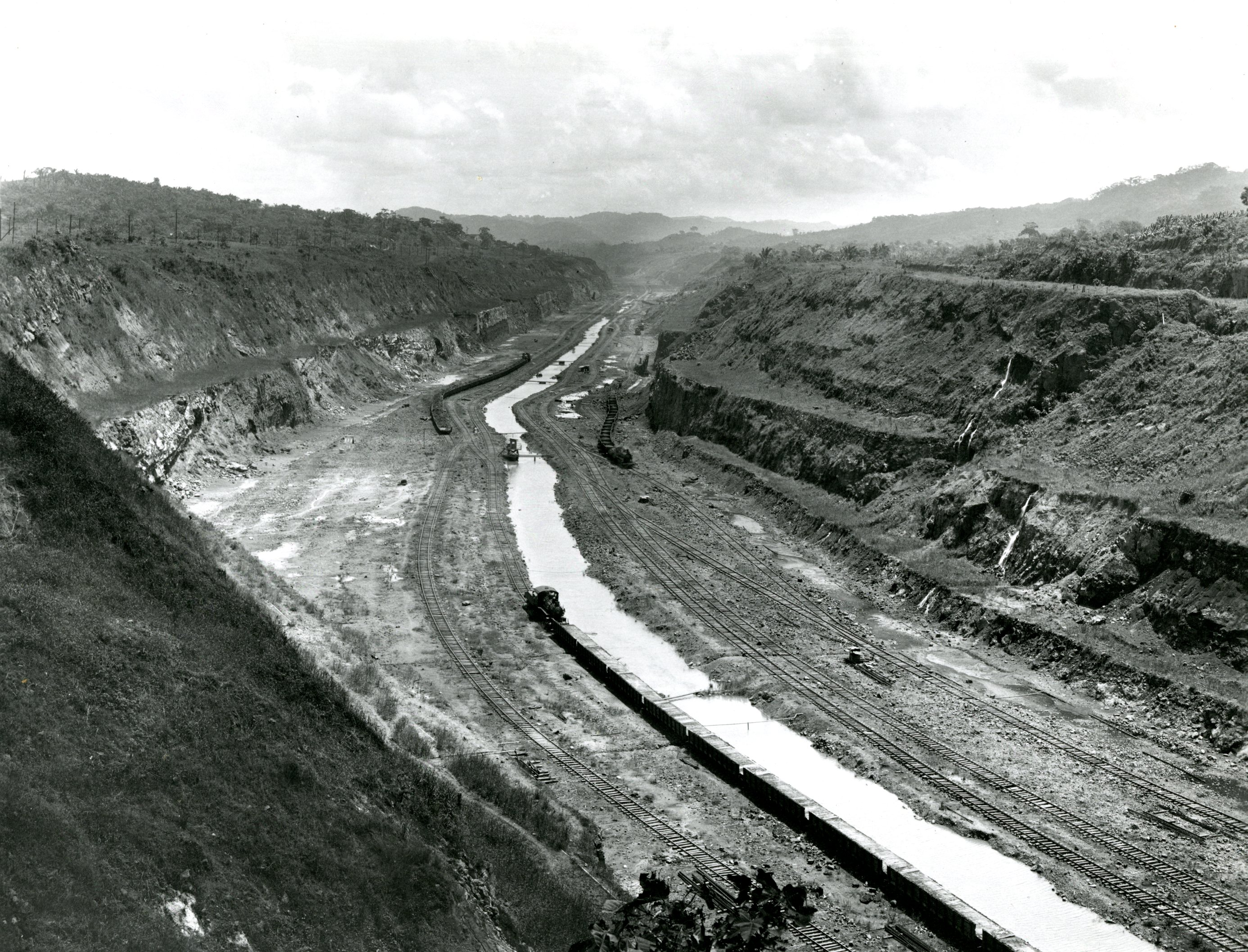 This before photograph of the Panama Canal was used as a guide in the construction of the Cape Cod Canal by the U.S. Army's Office of the Chief Engineers.